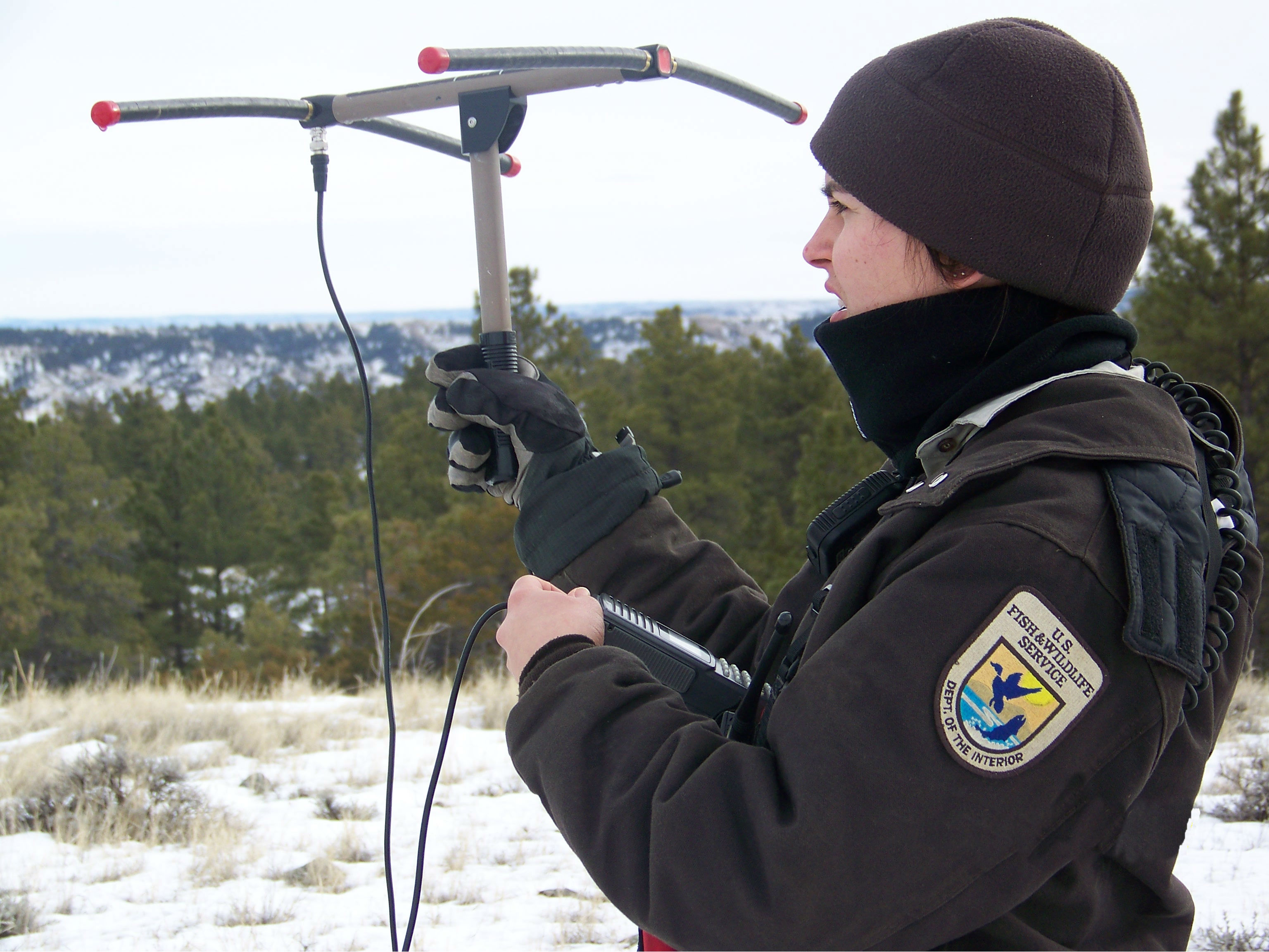 January 2013 - US Fish and Wildlife Service employee Mary Jo Hill attempting to locate two radio collared mountain lions siblings (a male and a female) with radio direction finding equipment. They had been collared in December 2012 and we knew they were traveling with one more male sibling who was not collared. Using their locations we were able to track and collar the last male sibling. The animals have small radio transmitters on collars around their necks that emit a low-powered radio signal in the VHF band. The employee holds a RDF radio receiver with which she can hear the signal. She turns the Yagi antenna she is holding until the signal is strongest in her earphones; then the antenna is pointed at the animal. Credit: Carmen Luna / USFWS